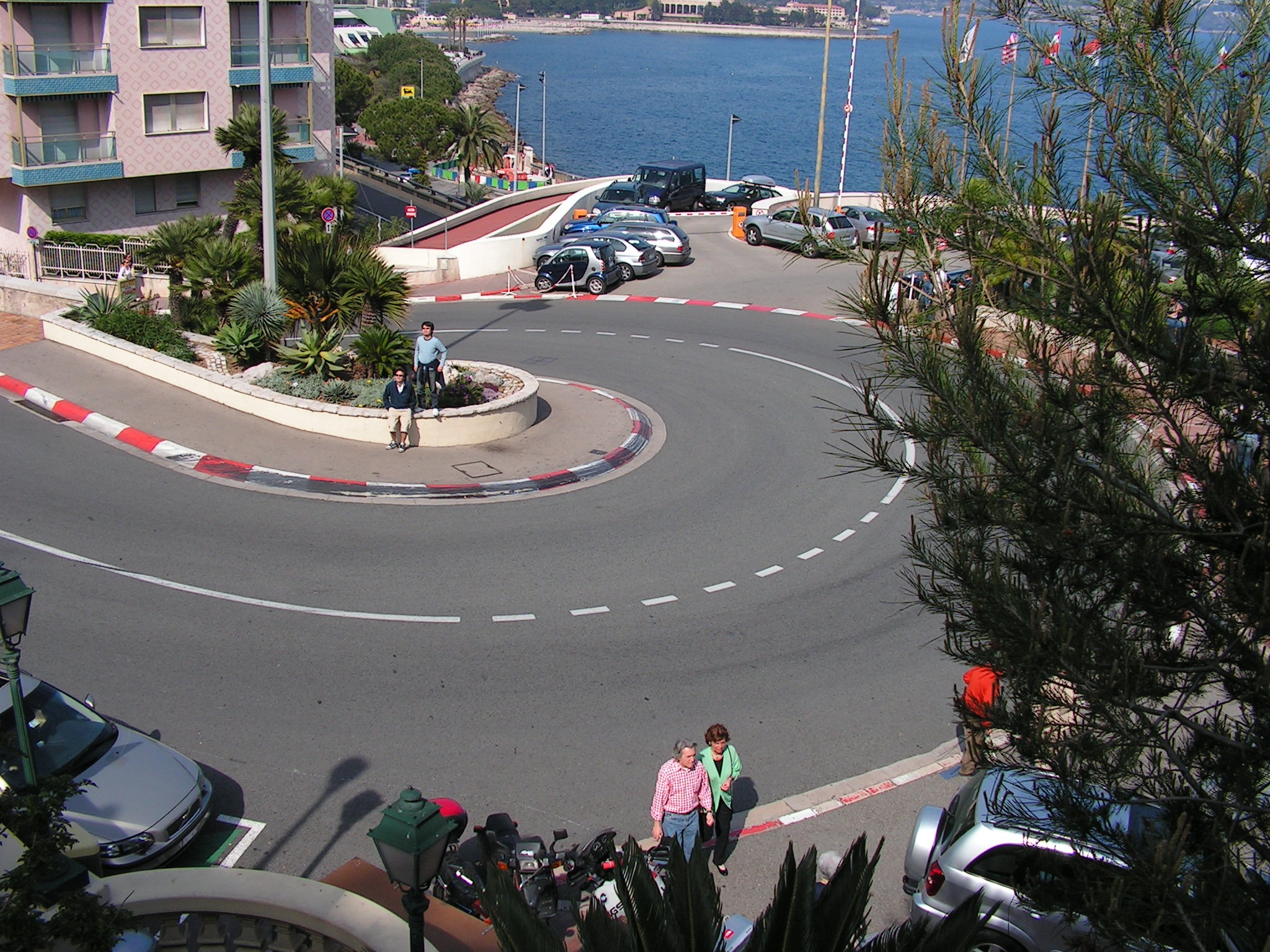 Thr Grand Hotel hairpin, part of the track of the Monaco GP